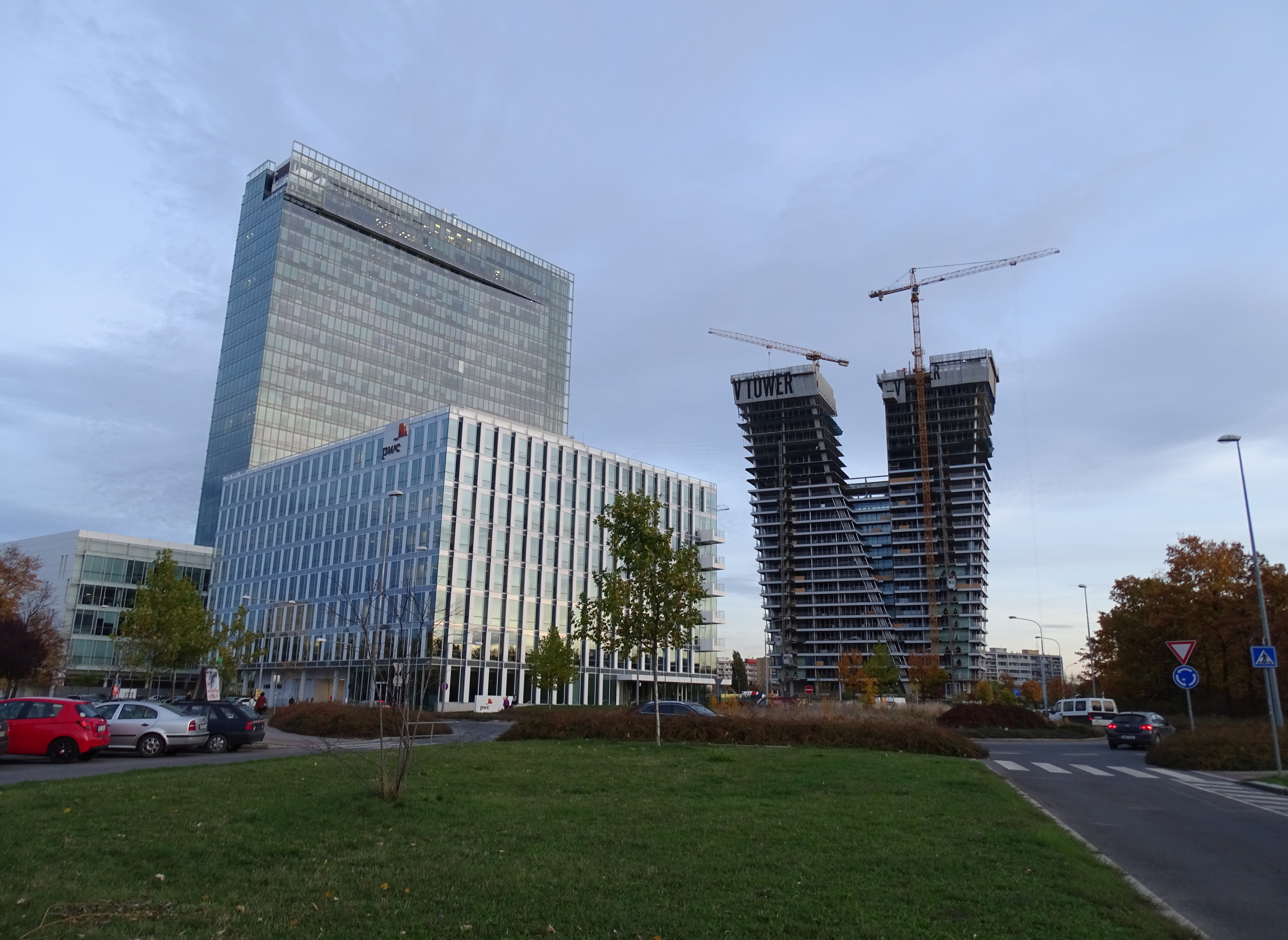 Prague-Nusle, Czechia, Pujmanové street, high-rises.